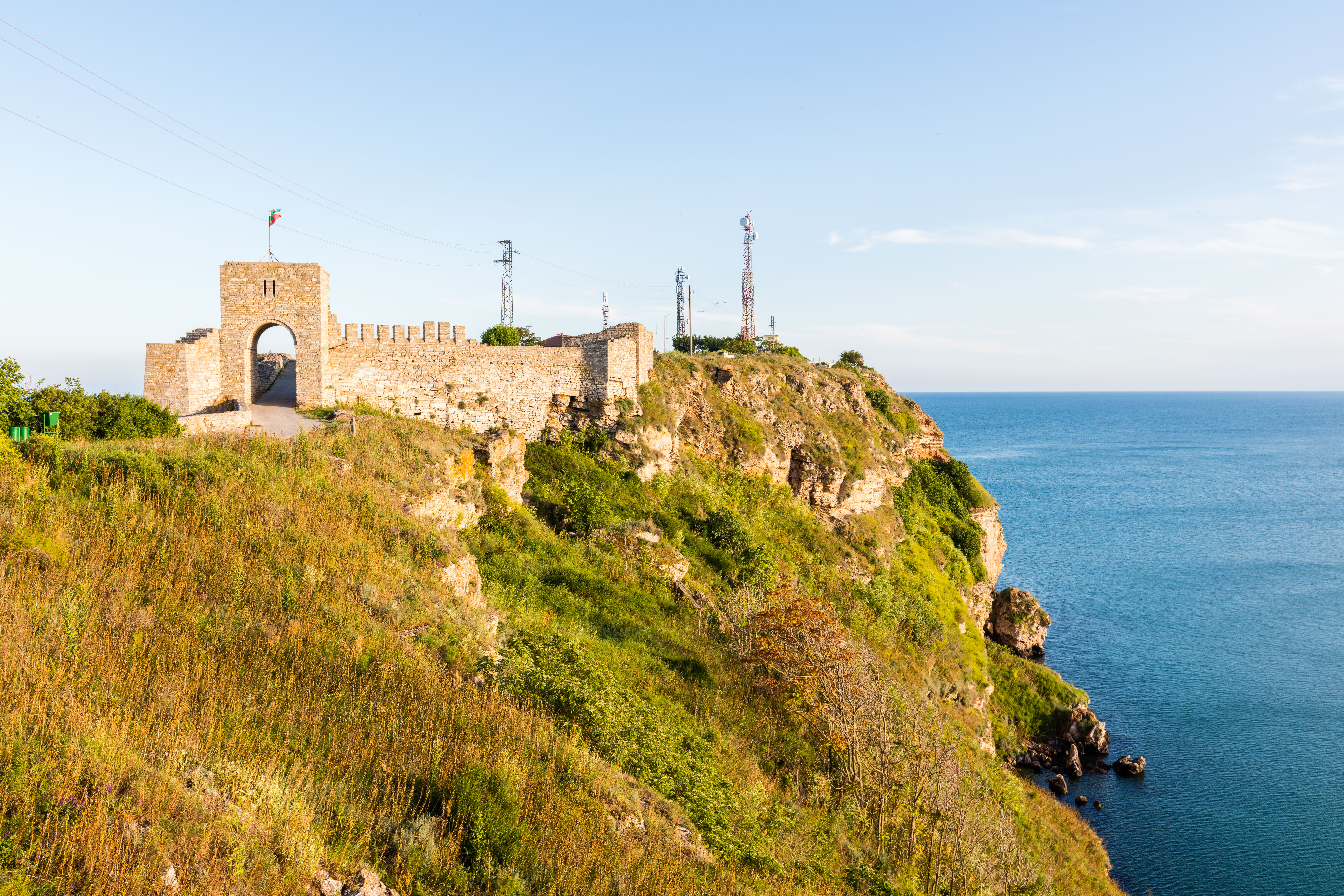 Cape of Kaliakra, Dobrich province, Bulgaria